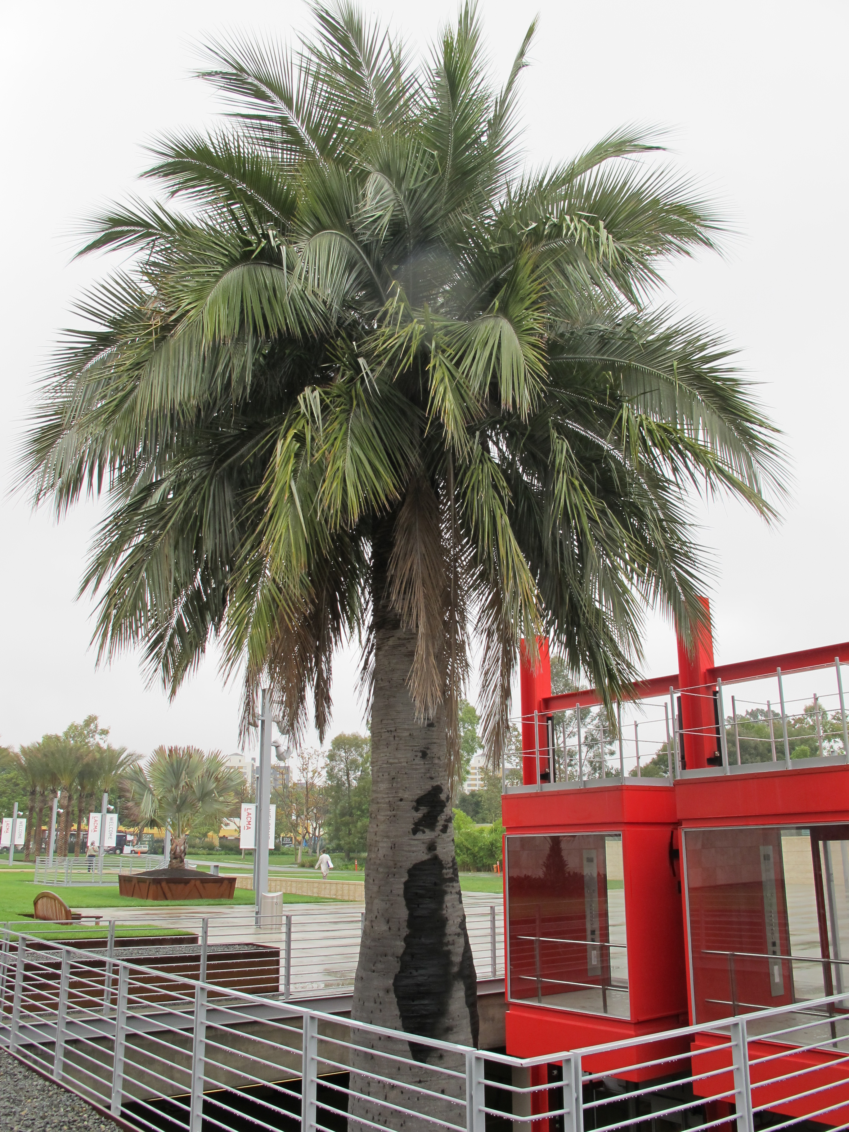 Chilean Wine Palm (Jubaea chilensis), In the new gardens of the Los Angeles County Museum of Art (LACMA).